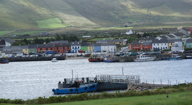 Harbour of Portmagee, Ireland